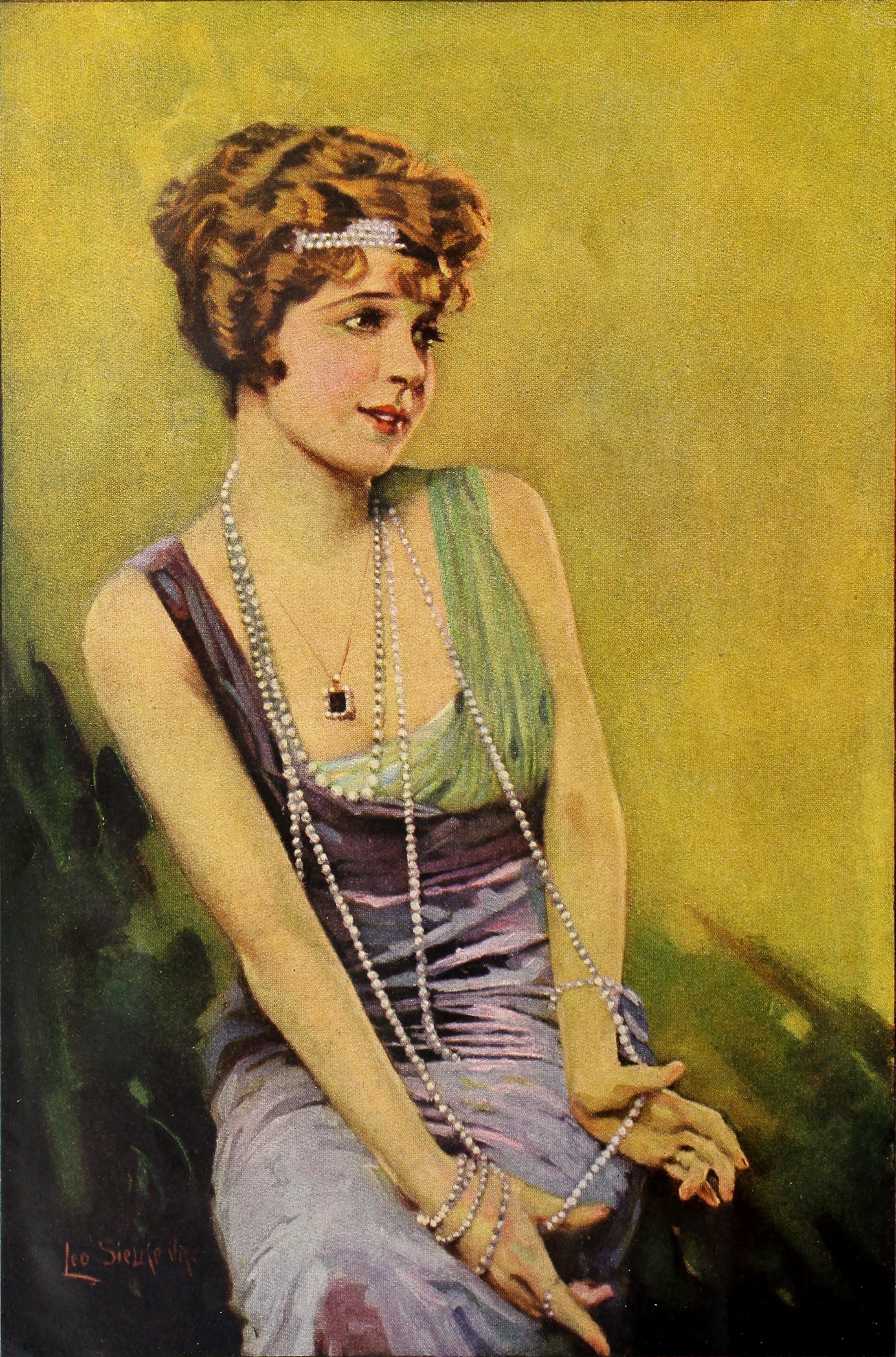 Actress Ina Claire on page 20 of the January 1920 Shadowland.